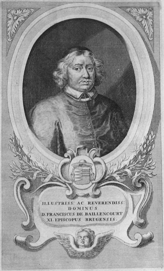 Francois de Baillencourt